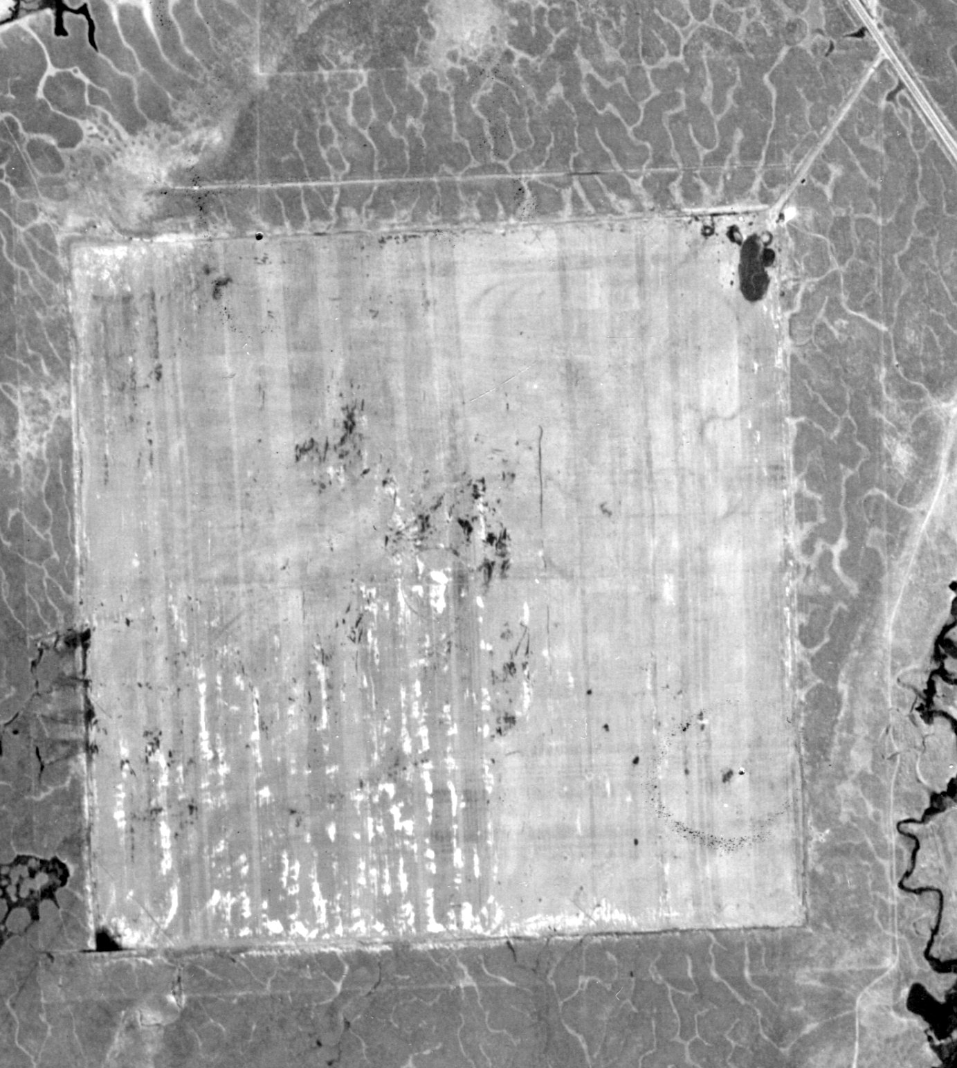 Oroville Auxiliary Airfield in a 1950 USGS photo. A World War 2 air mat, a Chico Army Airfield auxiliaries airfield.